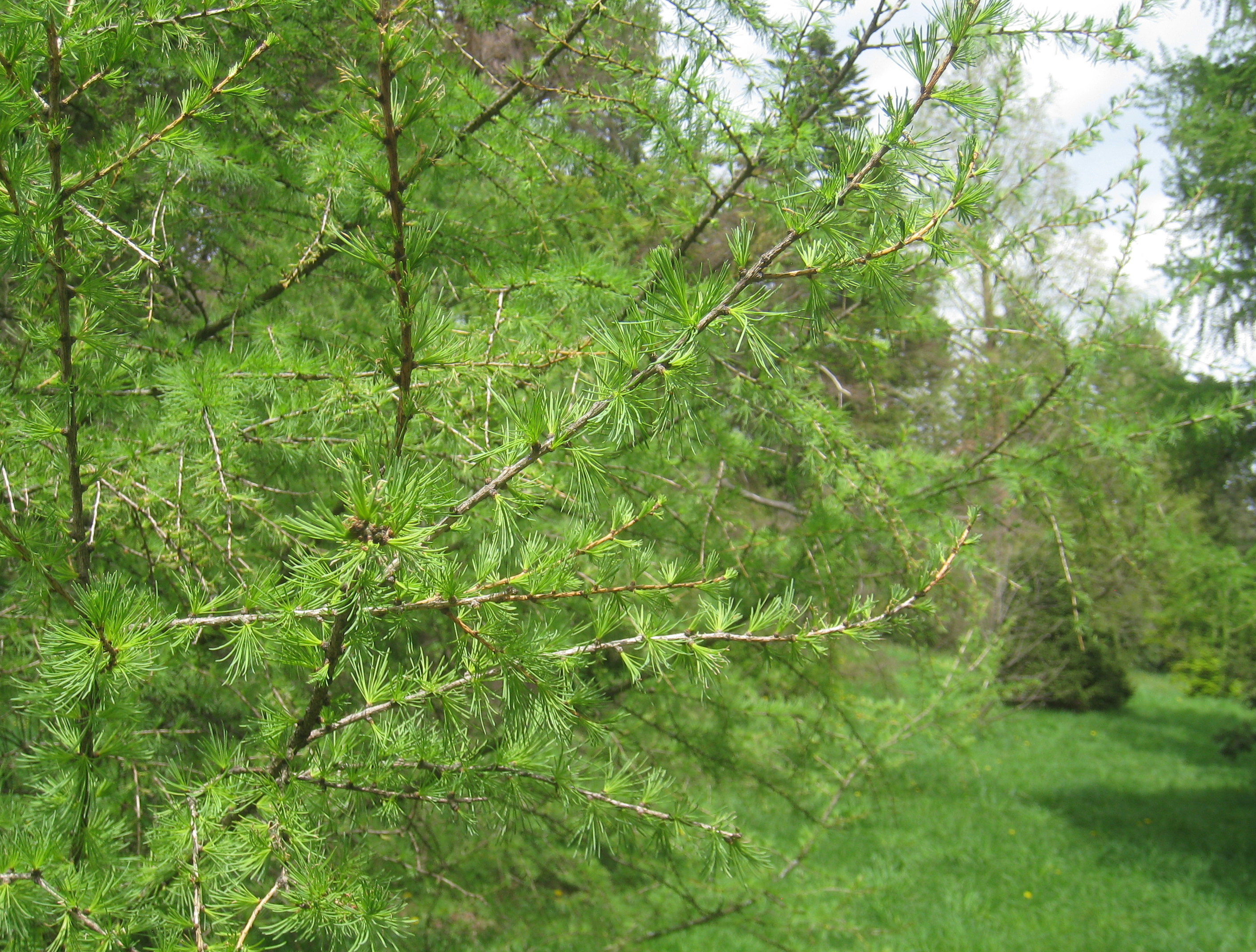 Larix sibirica, Arnold Arboretum, Jamaica Plain, Boston, Massachusetts, USA.